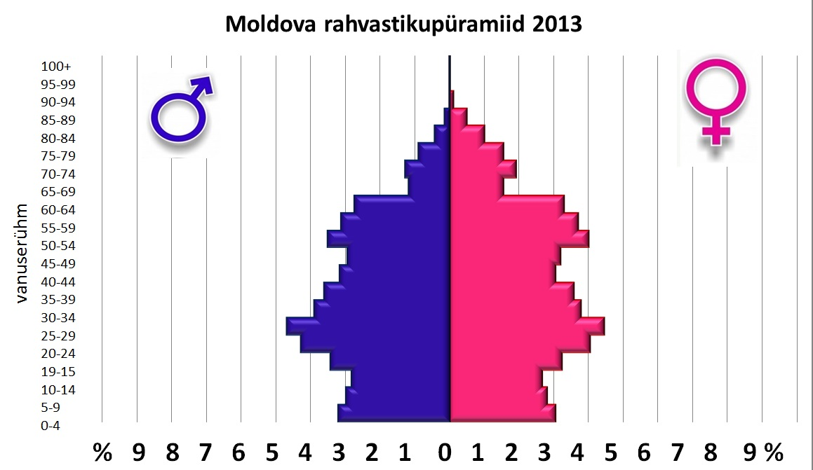 Population pyramid of Moldova 2013. Sourse: United States Census Bureau